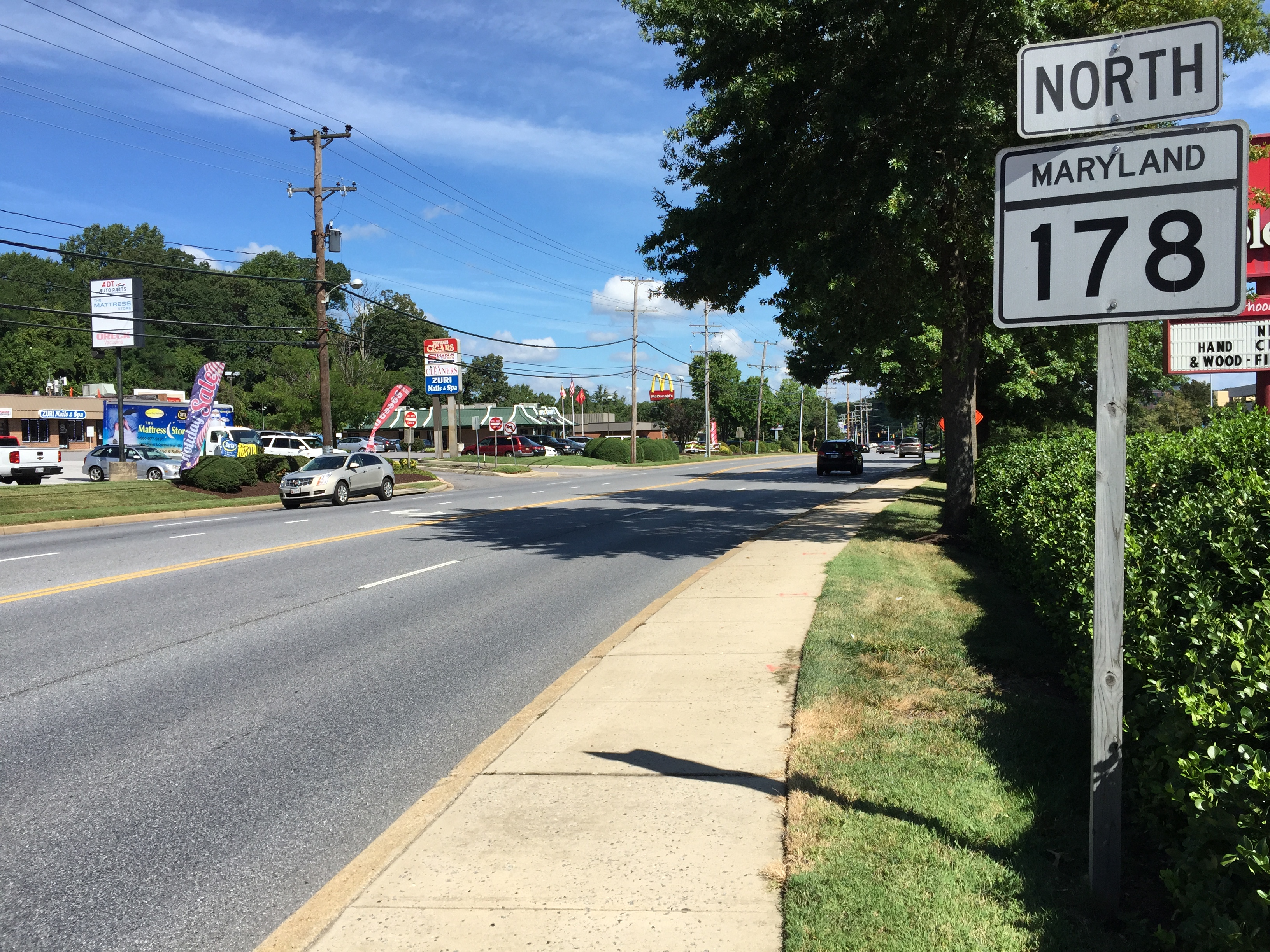 View north along Maryland State Route 178 (Generals Highway) at Maryland State Route 450 (Defense Highway/West Street) in Parole, Anne Arundel County, Maryland